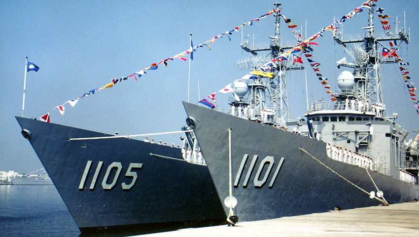 ROC (Taiwan) Navy Cheng-Kung-class (Oliver Hazard Perry class) frigate. Originally from ROCN site: [1] Ministry of National Defense copyright info: "Information presented on this site is considered public information and may be distributed or copied unless otherwise specified. Use of appropriate byline/photo/image credits is requested."[2]